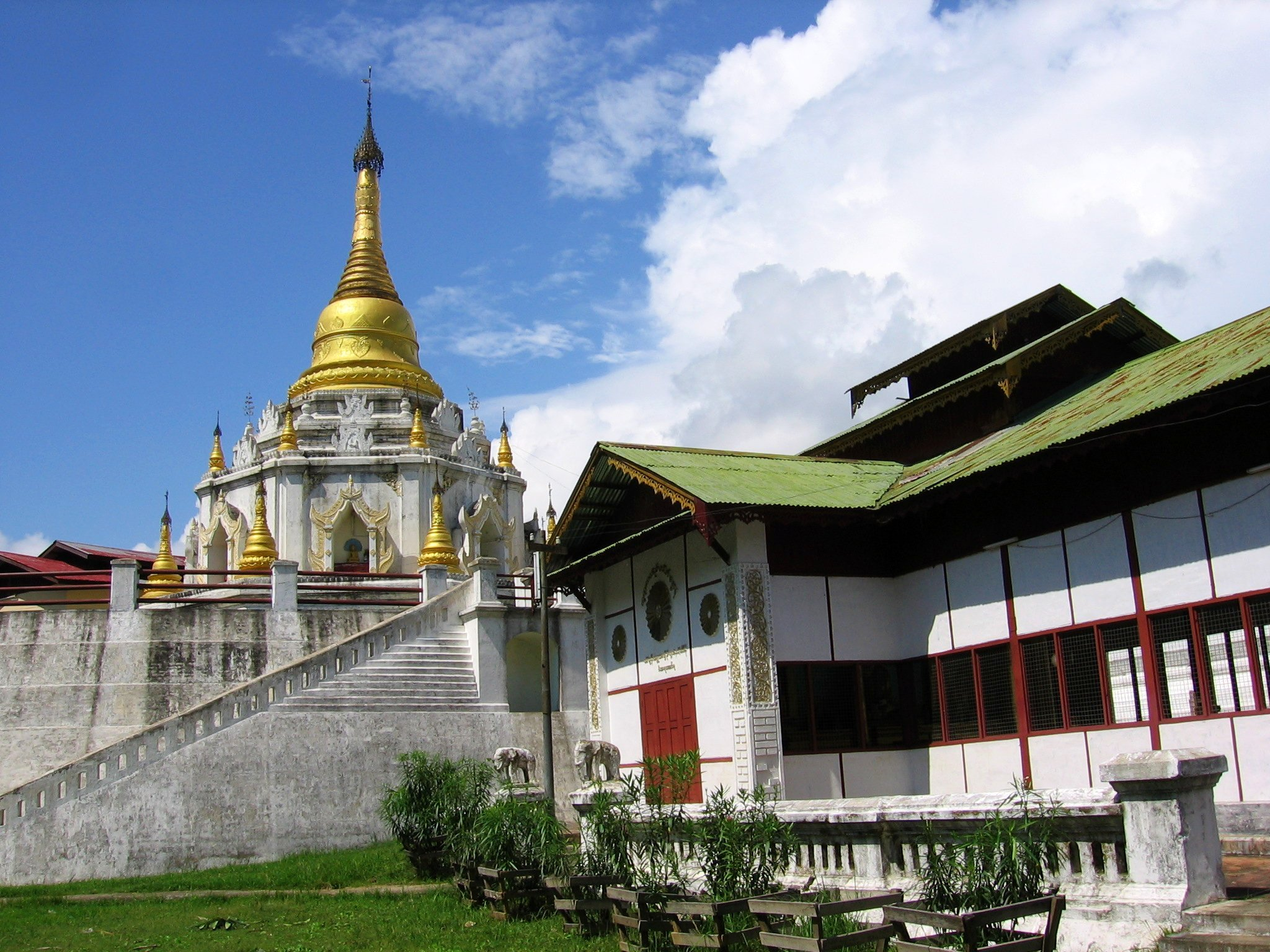 Shwe Kyina pagoda. Bhamo (Myanmar).